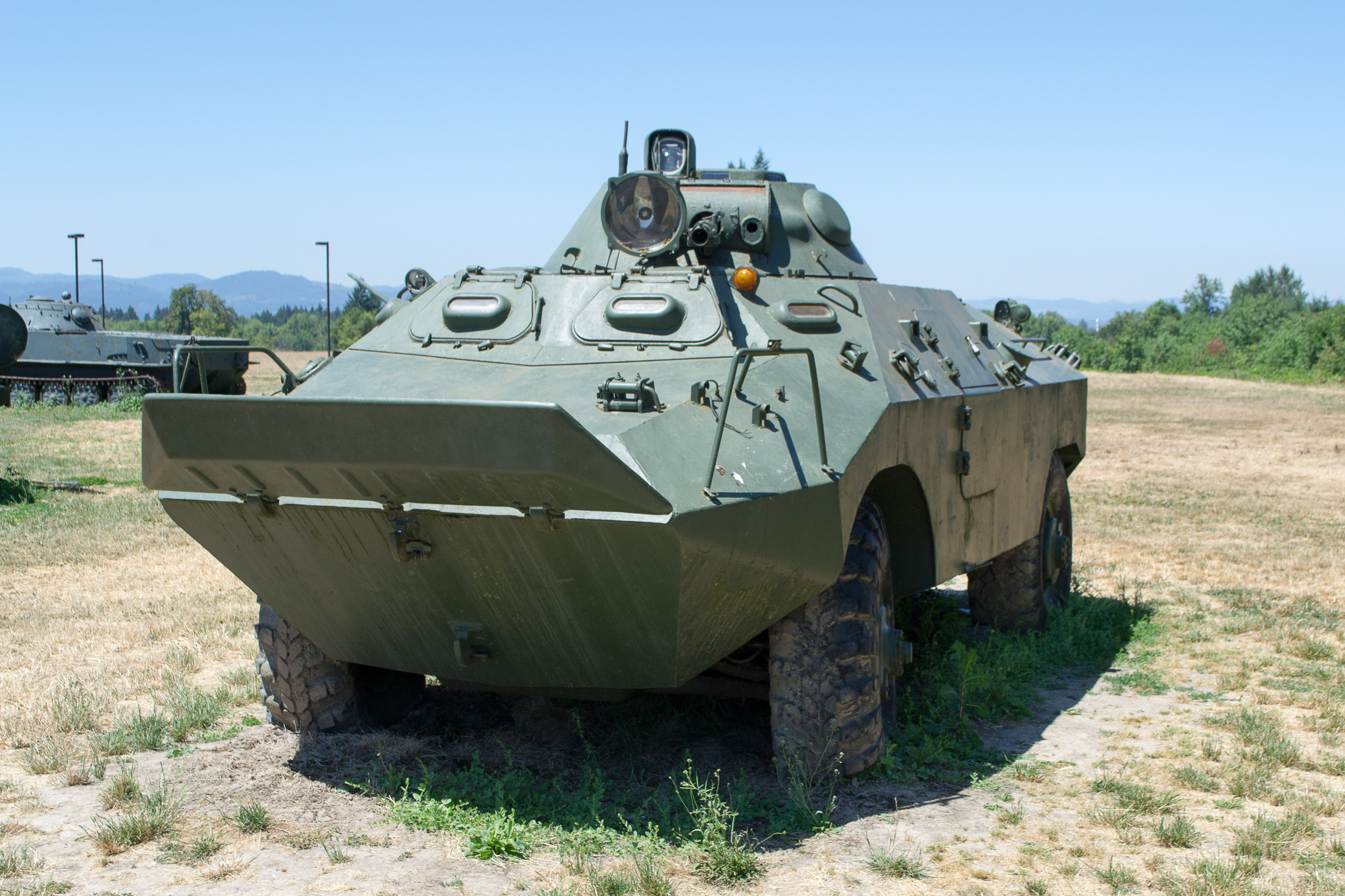 A PSZH amphibious recon vehicle at the Evergreen Aviation and Space Museum